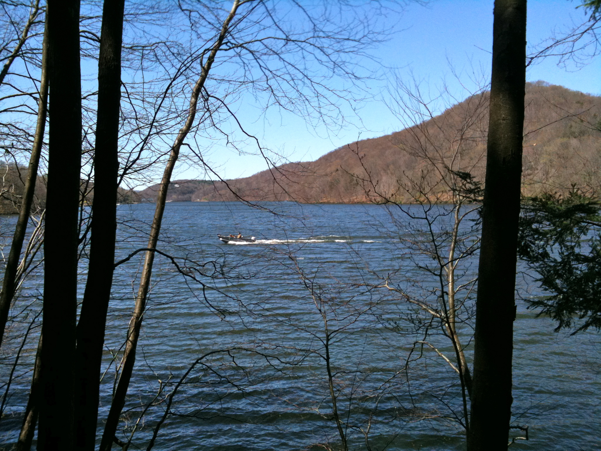 Lillinonah Trail. Blue-Blazed CFPA foot path which circles the upper Paugussett State Forest (and Lake Lillinonah/Housatonic River) in Newtown, CT. Northern Lake Lillionah from Lillinonah Trail with boat from Blue-Blazed CFPA foot path which circles the upper Paugussett State Forest (and Lake Lillinonah/Housatonic River) in Newtown, CT.